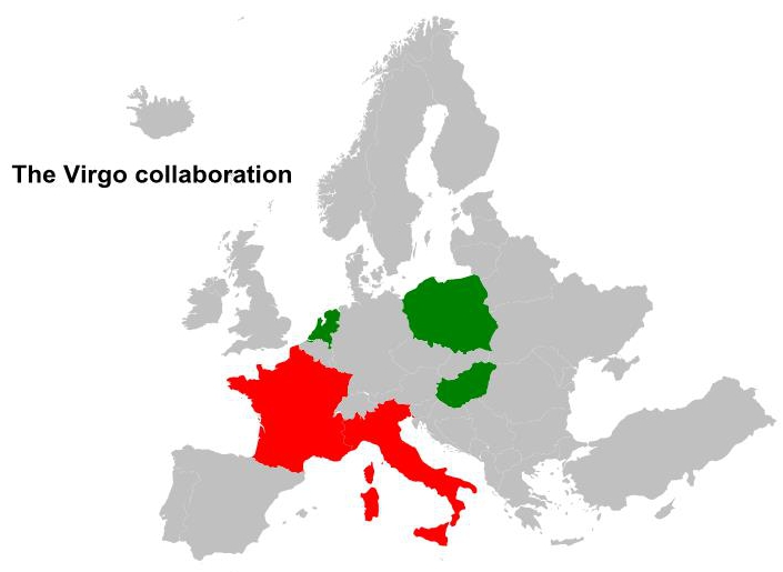 Countries which are part of the Virgo experiment